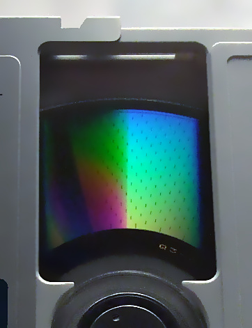 Close up of Magneto-optical Disk surface